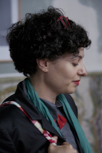 Adriana Molder 2013